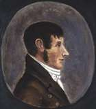 A portrait of Jørgen Aall.